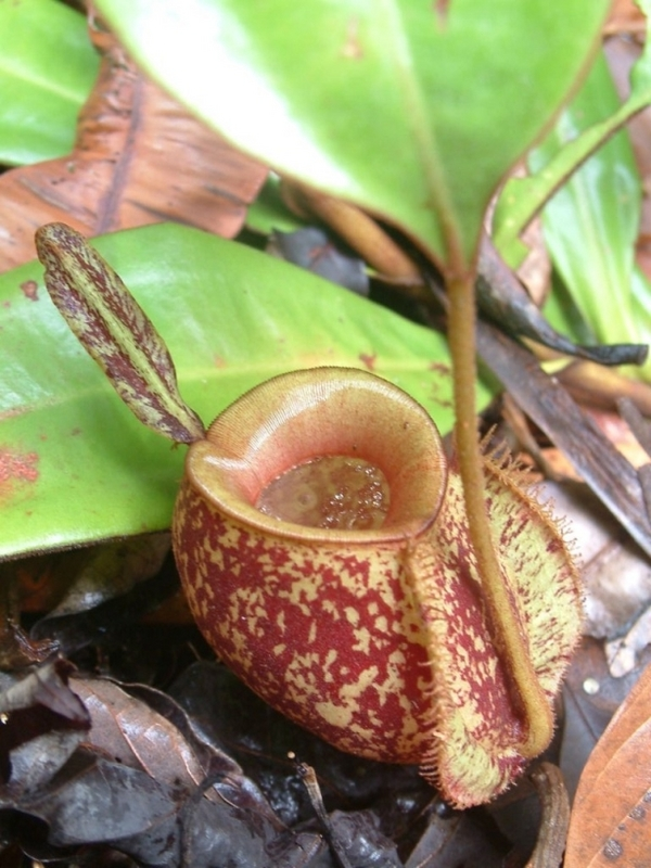 Nepenthes ampullaria, New Guinea